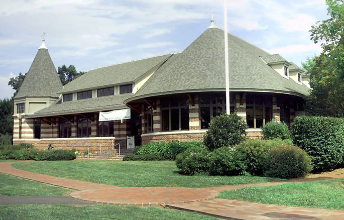 Cos Cob Library, Cos Cob, Conn., built 1999, Architects Kaehler & Moore, Greenwich, Conn.